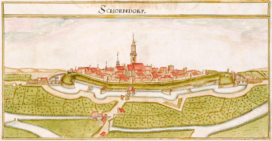 View of Schorndorf from the forest register books created by Andreas Kieser